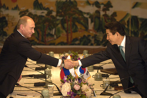 BUSAN. With the President of the Republic of Korea, Roh Moo Hyun.